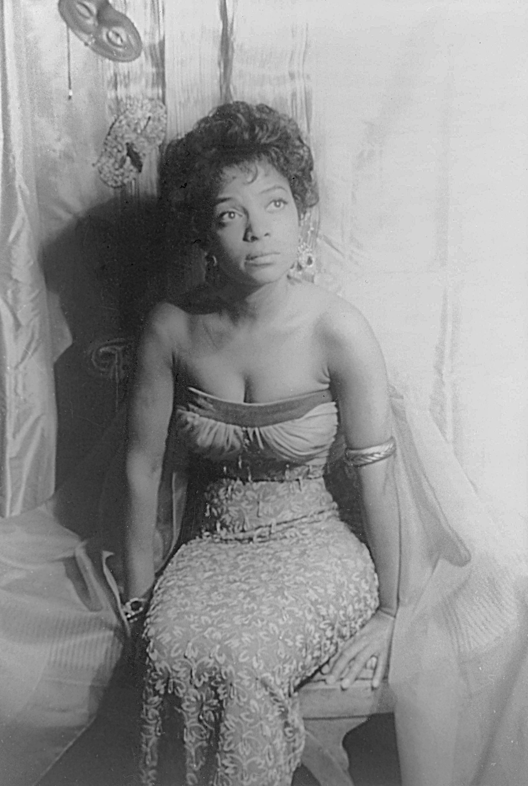 Actress Ruby Dee CREATED/PUBLISHED 1962 Sept. 25. Carl Van Vechten Collection, photographer. Dee, Ruby Portrait of Ruby Dee